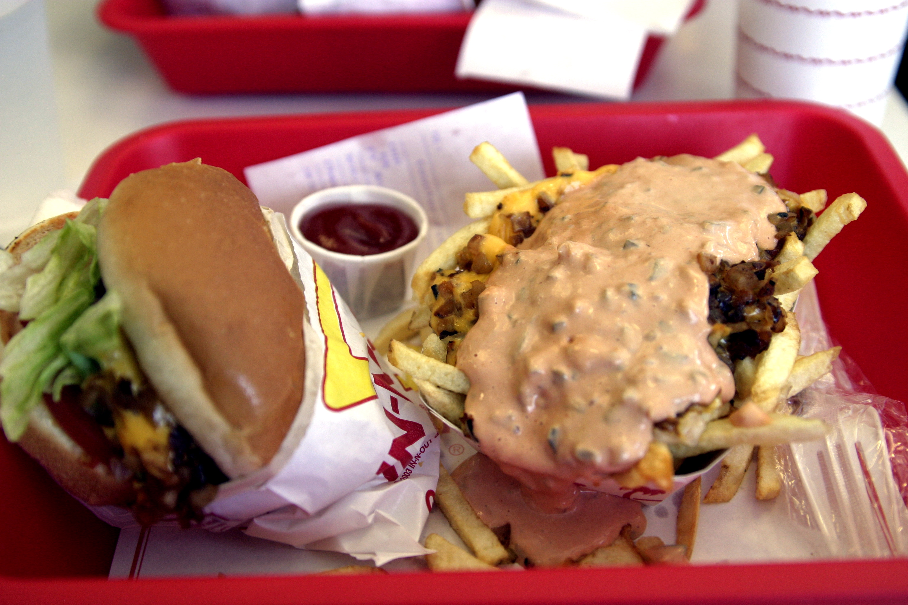 In-N-Out burger, animal-style fries, plastic fork, and ketchup in a red plastic tray.IMG_1739